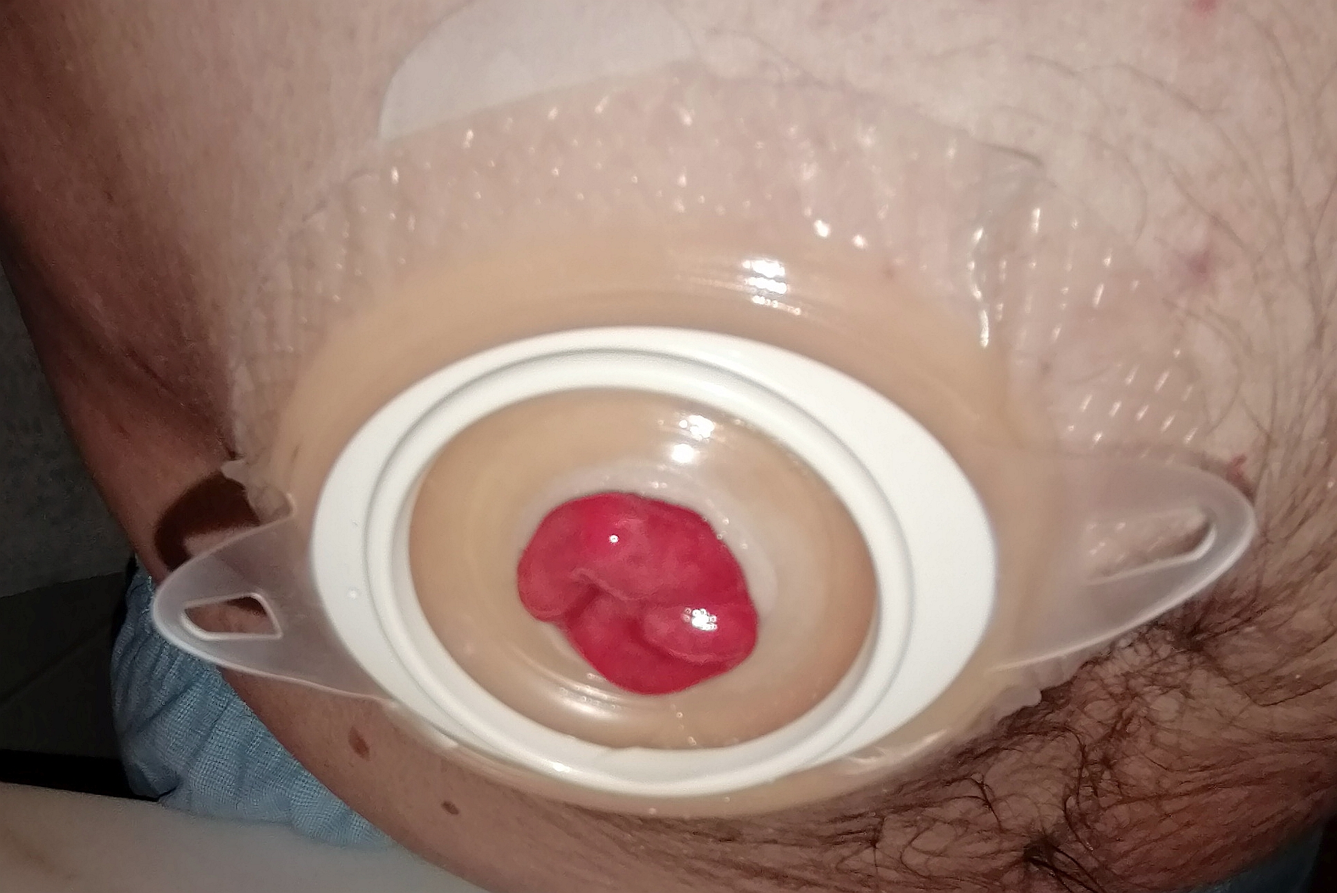 Urostoma with flange in place. A pouch needs to be attached to the flange to collect urine.